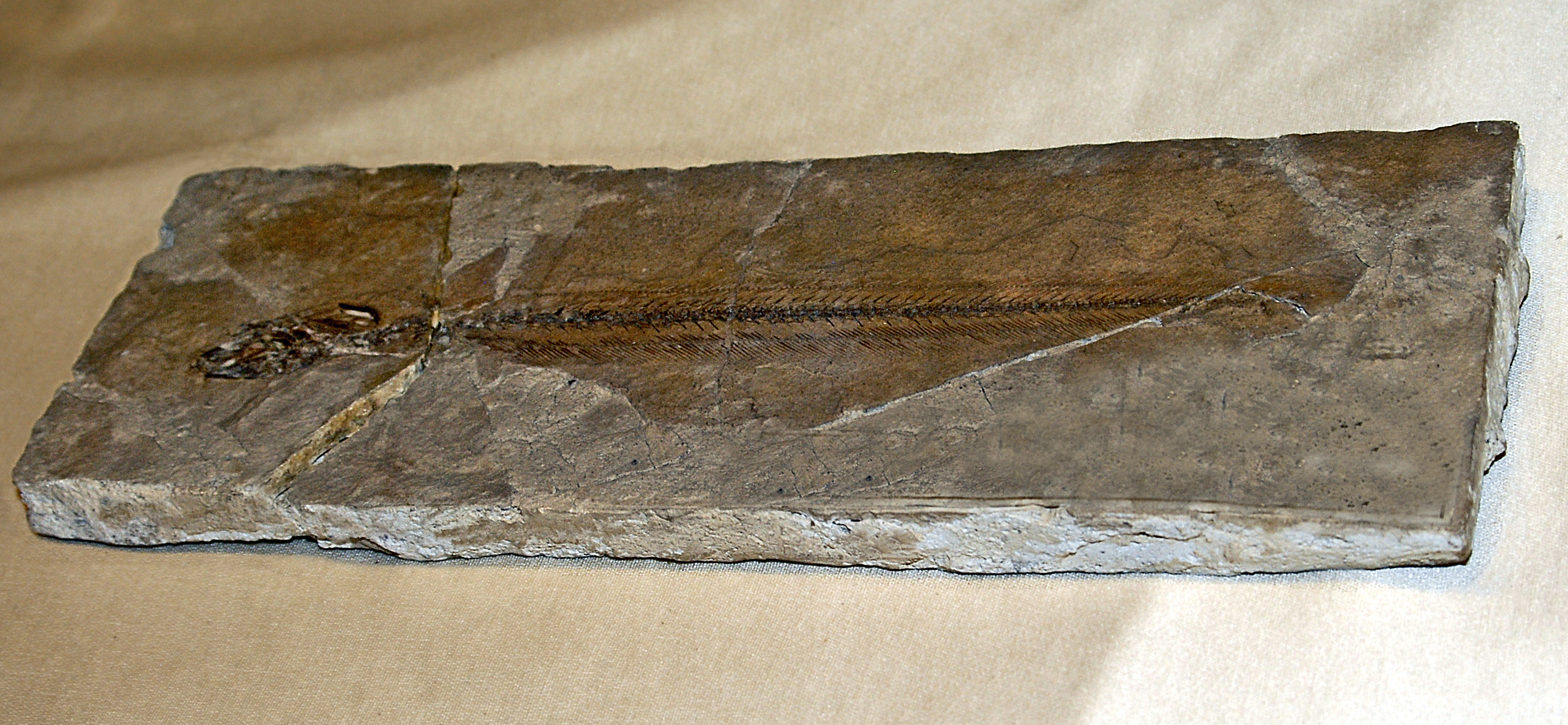 Fossil of Bolcyrus formosissimus from Monte Bolca, on display at Museo Geologico G. Cappellini, Bologna